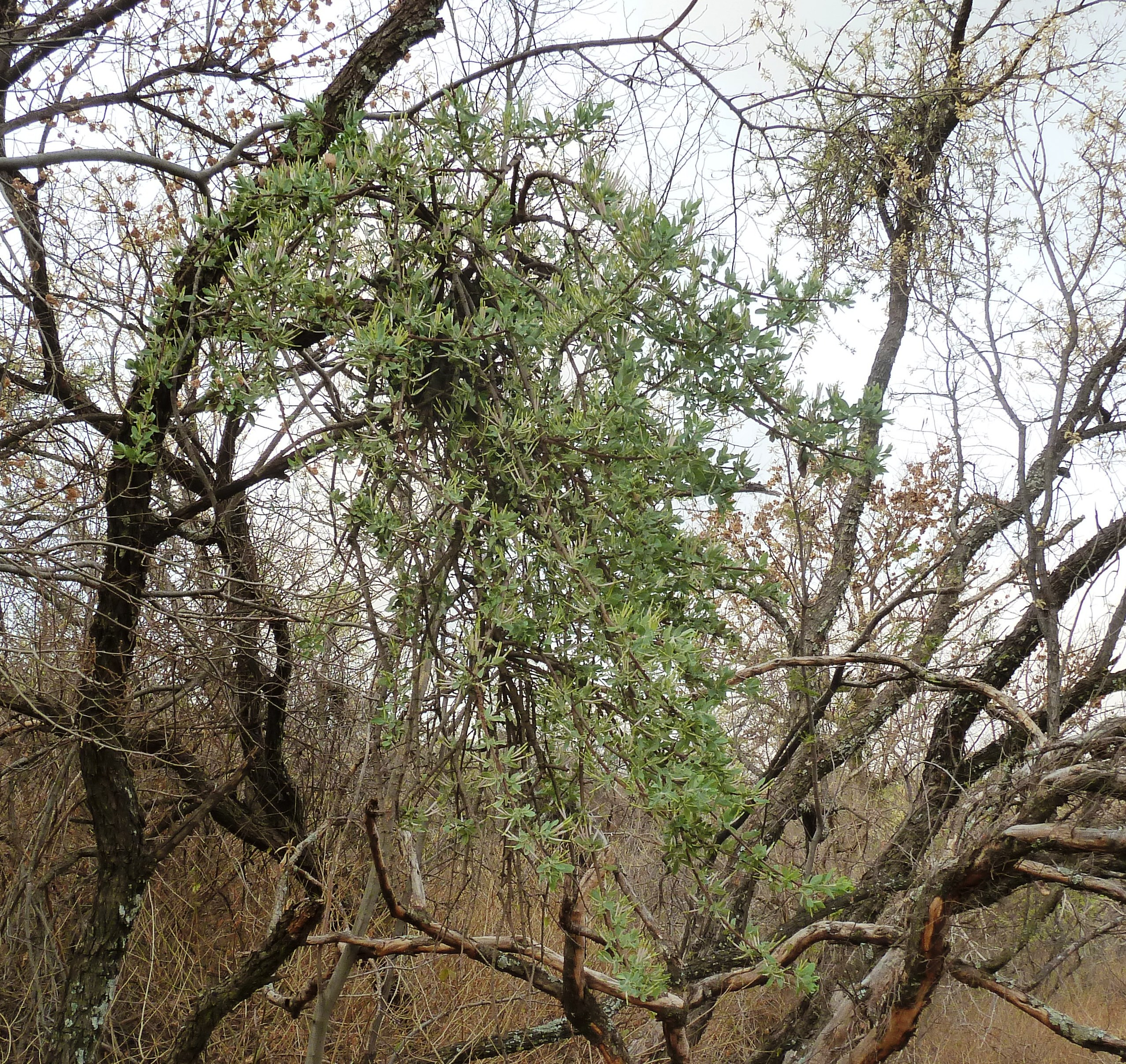 Natal mistletoe, growing on Acacia caffra, at Seringveld near Pretoria